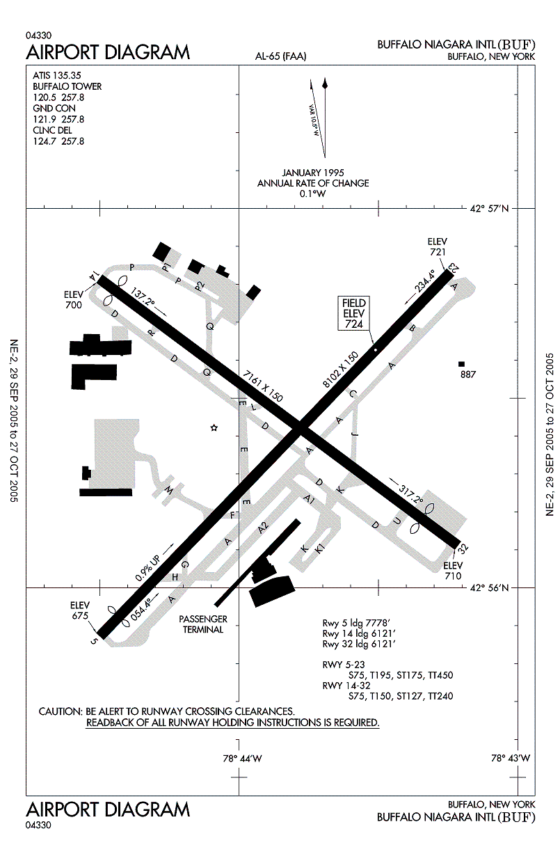 FAA airport diagram for Buffalo Niagara International Airport (BUF) serving Buffalo, New York, United States. Automatically converted to PNG The PNG crusade bot automatically converted this image to the more efficient PNG format. The image was previously uploaded as "00065AD.gif". Previous file history 09:57:06, 22 October 2005 (UTC) . . Zyxw (Talk